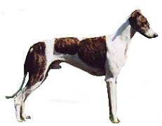 Hungarian Greyhound, Magyar Agár